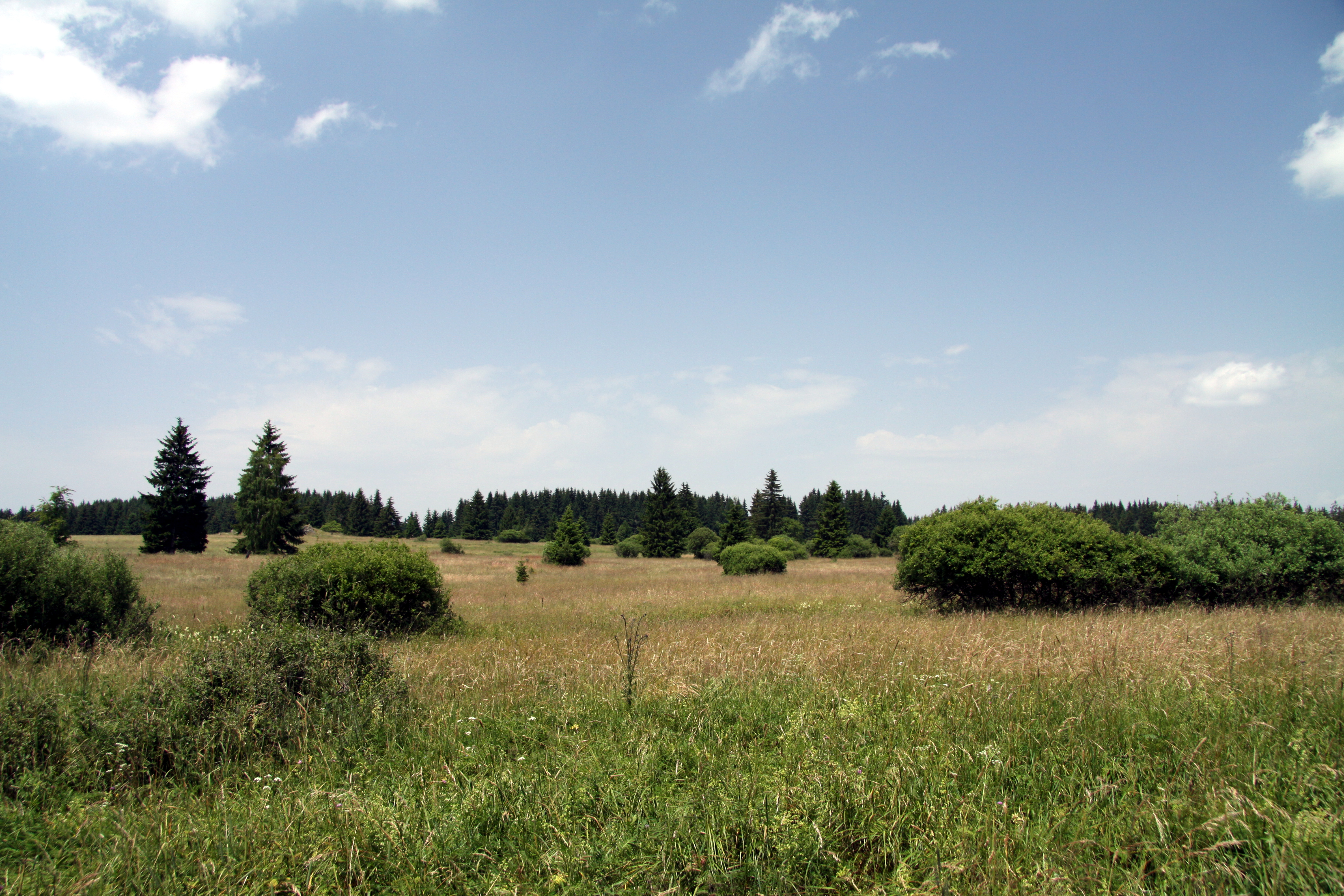 National natural monument Upolínová louka pod Křížky near Prameny village in Cheb District, Czech Republic